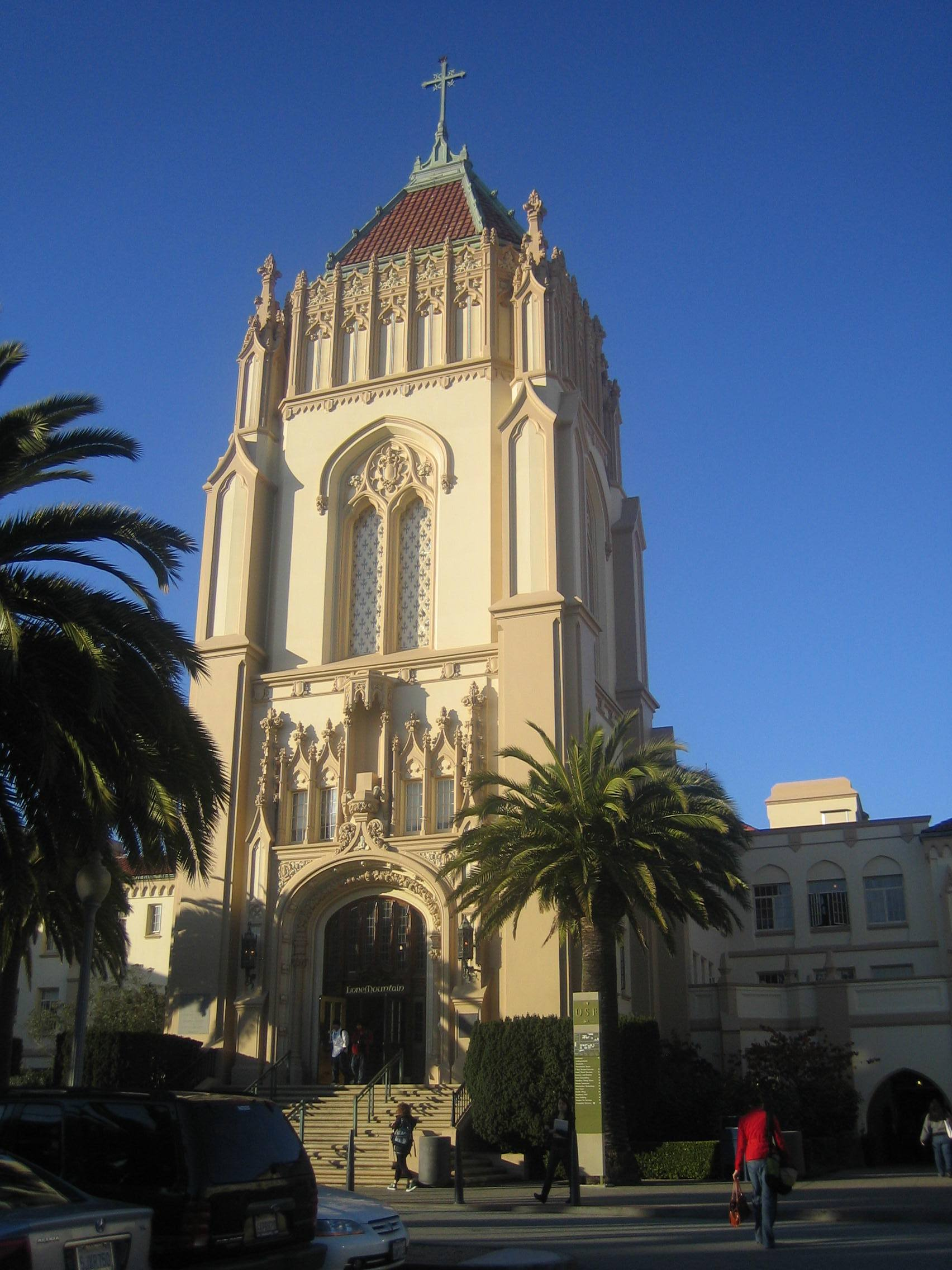 Lone Mountain